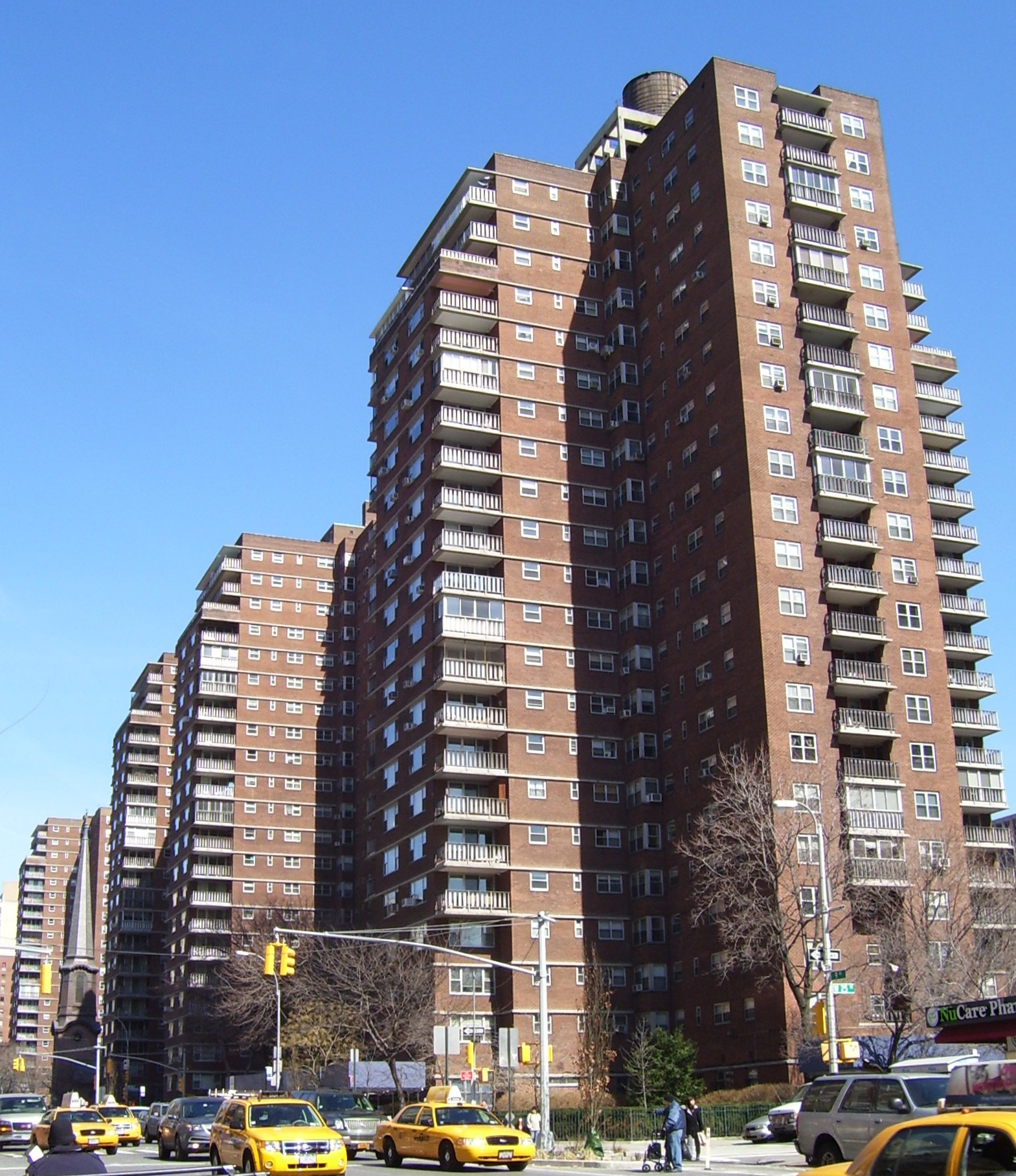 Buildings of the Penn South housing cooperative development along Ninth Avenue north of West 25th Street in the Chelsea neighborhood of Manhattan, New York City.